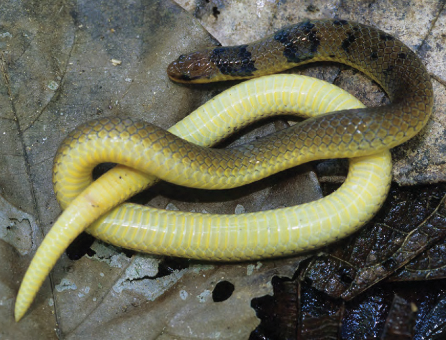 Calamaria bitorques (KU 327409) from Barangay Dibuluan, San Mariano. Photo: ACD.